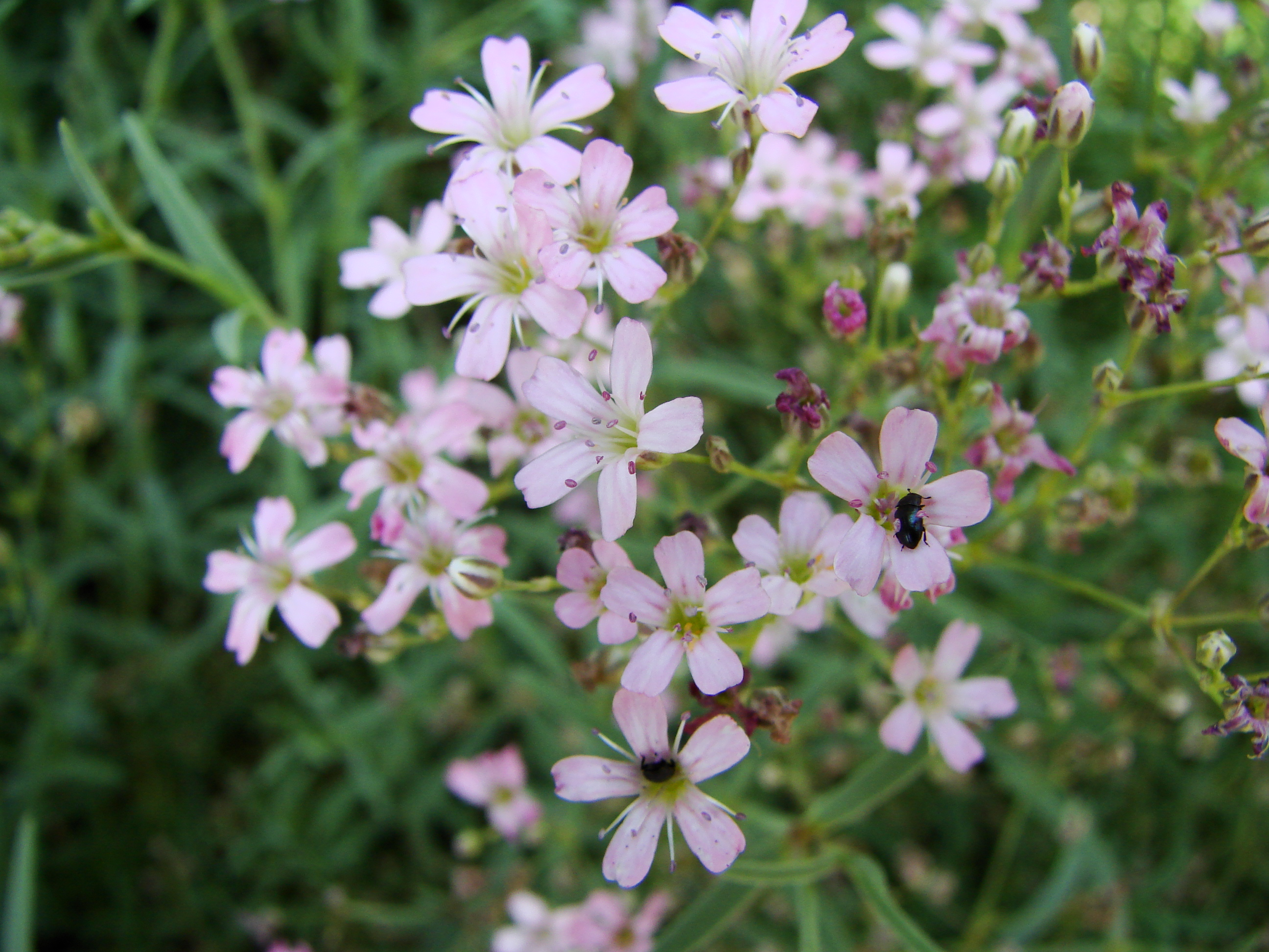 Picture taken in the university botanical garden of Wrocław (Poland): Gypsophila repens L.